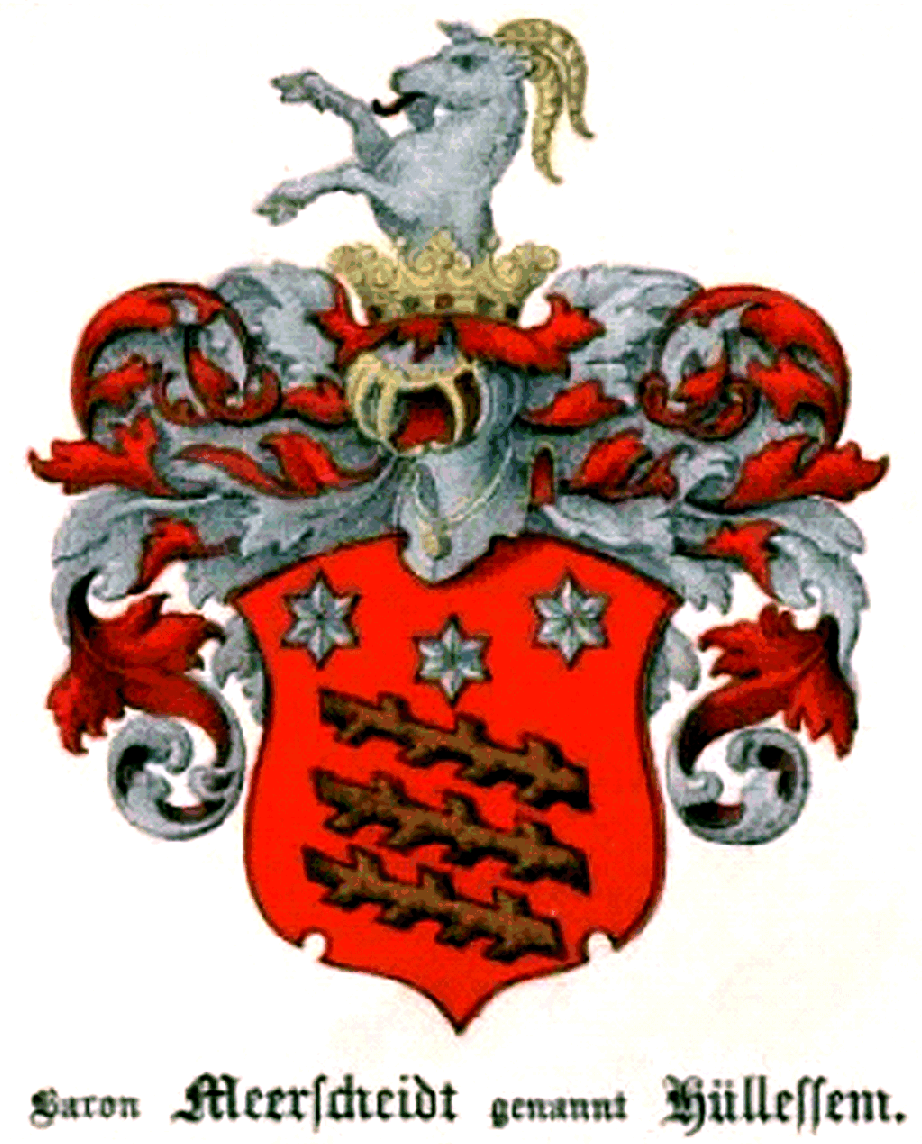 Coat of Arms of Baron Meerscheidt-Hüllessem family